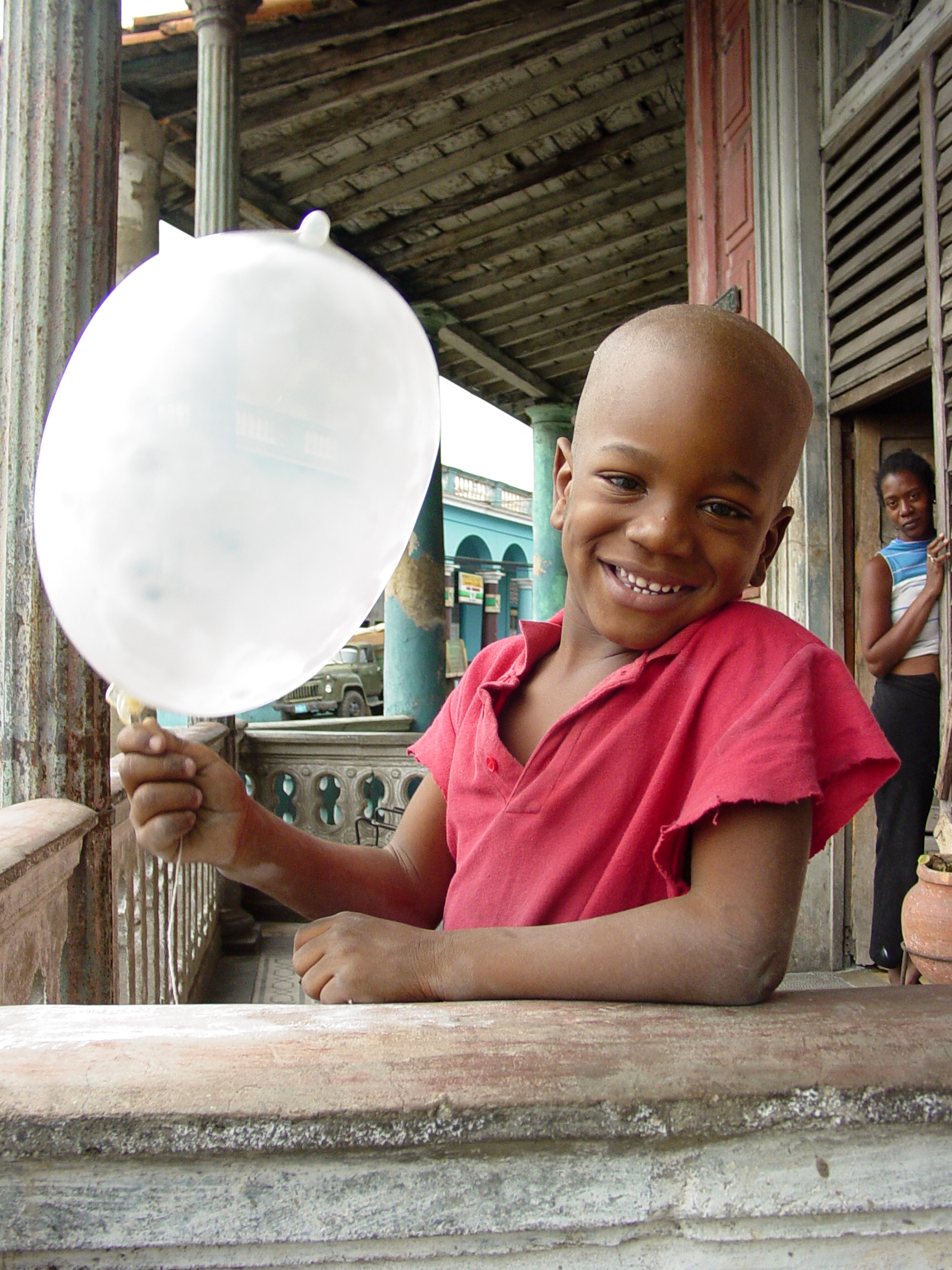 A boy plays with a balloon that isn't, Pinar del Rio, Cuba. December 2006.